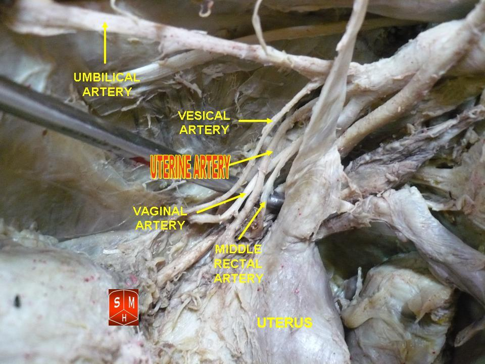 Anatomical preparations